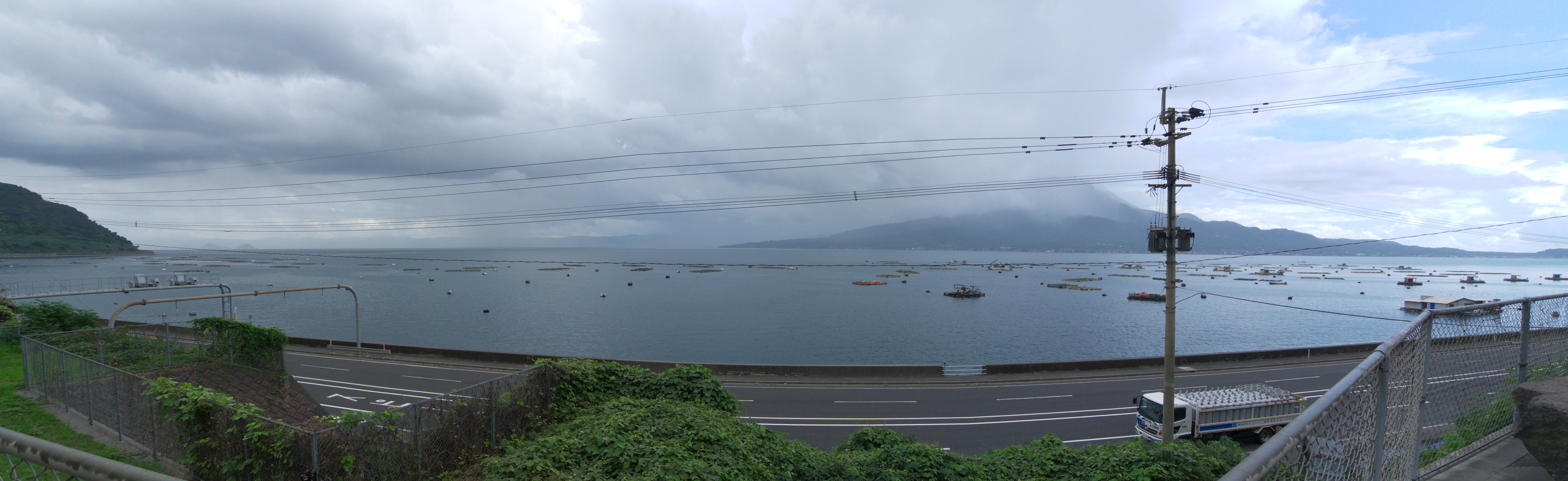 Sakurajima seen from Ryugamizu Station platform. The National Route 10 runs alongside Kagoshima Bay